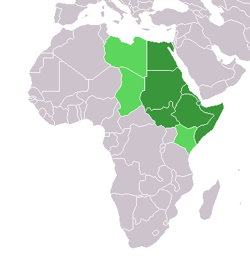 Modified version of :Image:Africa-countries-northern.png